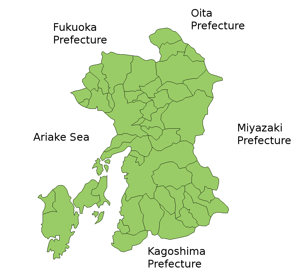 Map of Kumamoto Prefecture, Japan. Thanks to Aoki Shigenobu and [1]. Colors from Image:TokyoMapCurrent.png by User:Fg2.